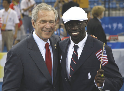 President George W. Bush poses for a photo with U.S. Olympic runner Lopez Lomong Friday, Aug. 8, 2008, in Beijing prior to Opening Ceremonies of the 2008 Summer Olympic Games. Lopez Lomong, a survivor of the violence in his native Sudan, now a U.S. citizen, was selected by his teammates to lead the U.S. Olympic team into Olympic National Stadium carrying the United States Flag at the Opening Ceremony. White House photo by Eric Draper